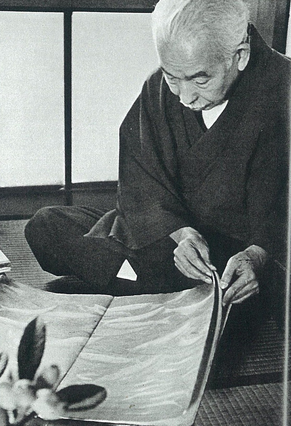 Heihachiro Fukuda is a Japanese painter.